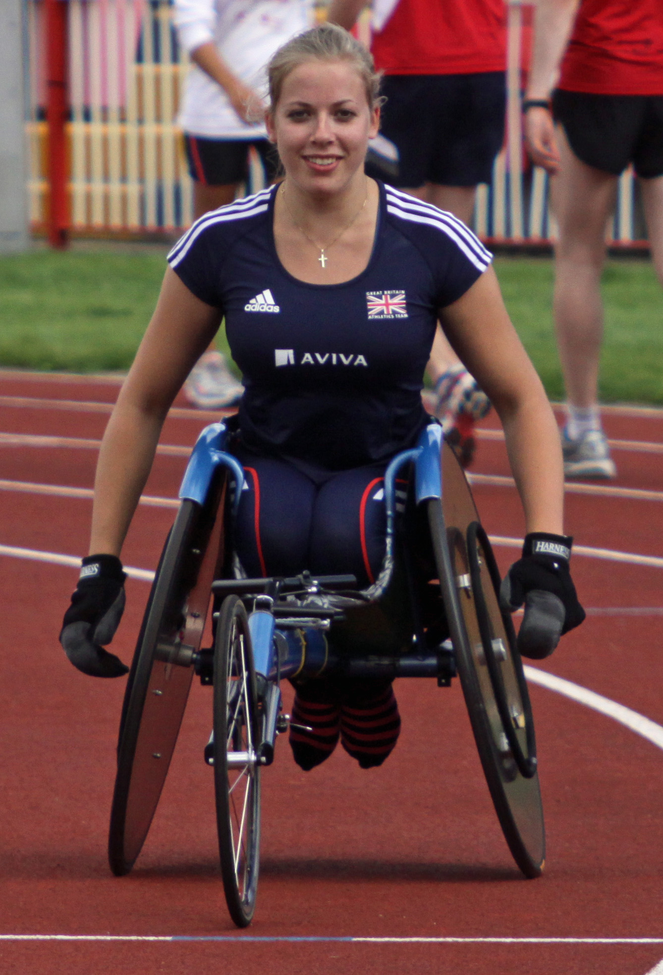 Hannah Cockroft, This photo was taken on August 21, 2010